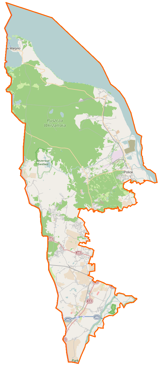 Map of Powiat policki, Poland This map of Powiat policki was created from OpenStreetMap project data, collected by the community. This map may be incomplete, and may contain errors. Don't rely solely on it for navigation.